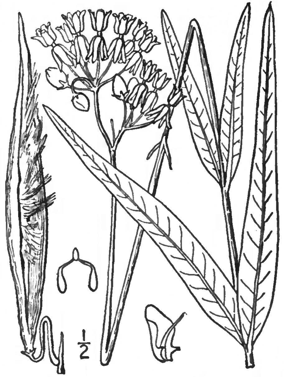 Fig. 3385. Asclepias lanceolata from the second edition of An Illustrated Flora of the Northern United States, Canada and the British Possessions (New York, 1913)